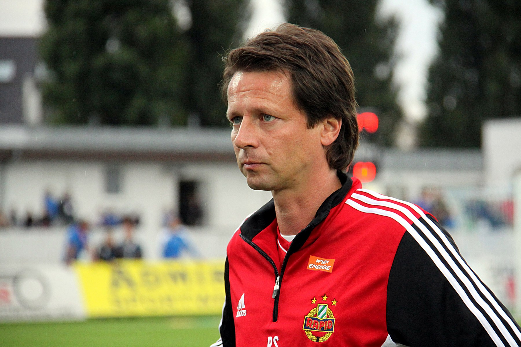 SC Wiener Neustadt (blue shirts) vs SK Rapid Wien (white shirts) 0:2 (0:0) – The foto shows coach Peter Schöttel (SK Rapid Wien).